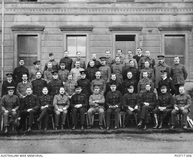 Group portrait of officers at the British Army Staff College, Camberley. Identified left to right (back row): Captain (Capt) M M Haldane, Royal Scots (RS); Capt G D Jebb, DSO, Bedford Regiment (Regt); Lieutenant Brudenell White, Royal Australian Artillery (the first Australian Military Forces officer to attend the college, during the First World War he was an influential staff officer); Capt R J Drake, North Staffordshire Regt; Capt W E Tyndall, DSO, West Riding Regt; Major (Maj) G J Farmar, Lancashire Fusiliers; Capt Bowman-Manifold, DSO, Royal Engineers (R E); Capt A Montgomery, Royal Field (R F) Artillery; Capt J H Davidson, DSO, King's Royal Rifle Corps (KRRC). Third row: Capt W H Weber, R F Artillery; Maj H C Warre, DSO, KRRC; Capt F J Marshall, Seaforth Highlanders; Capt G E Kenrick, DSO, Royal West (R W) Surrey Regt; Capt B R Moberly, 56th Infantry Indian Army (I A); Capt F W Brunner, R E; Maj B T Buckley, Northumberland Fusiliers; Capt H Musgrave, R E; Capt W M Stewart, Cameron Highlanders; Capt Marriott-Dodington, Oxfordshire Light Infantry (L I); Capt John Gellibrand, Manchester Regt, who commanded Australian forces on the Gallipoli Peninsula and in France, including the 3rd Division; Capt E F Orton, 37th Lancashire I A. Second row: Lt Crispin, Royal Navy (RN); Capt C Newnham, 6th Cavalry I A; Capt P FitzGerald, DSO, 11th Hussars; Capt R F Riley, DSO, Yorkshire L I; Capt A F Gordon, DSO, Gordon Highlanders; Capt Sir T Cuninghame, Baronet, DSO, Rifle Brigade; Capt W Robertson, R E; Capt H E Hutchinson, Gloucestershire Regt; Capt W L O Twiss, 9th Gurkha Rifles I A; Capt G Windsor-Clive, Coldstream Guards; Capt Fergusson, RN. Front row: Capt H G Watkin, 4th Hussars; Capt J W O'Dowda, R W Kent Regiment; Maj H McMicking, DSO, RS; Maj Hon A Russell, Grenadier Guards; Colonel (Col) L A Stopford; Maj A F Sillem, R W Surrey Regt; Col J P DuCane; Capt E B Ashmore, R F Artillery; Maj T A Cubitt, DSO, R F Artillery; Col W P Braithwaite; Capt H A Boyce, R F Artillery.